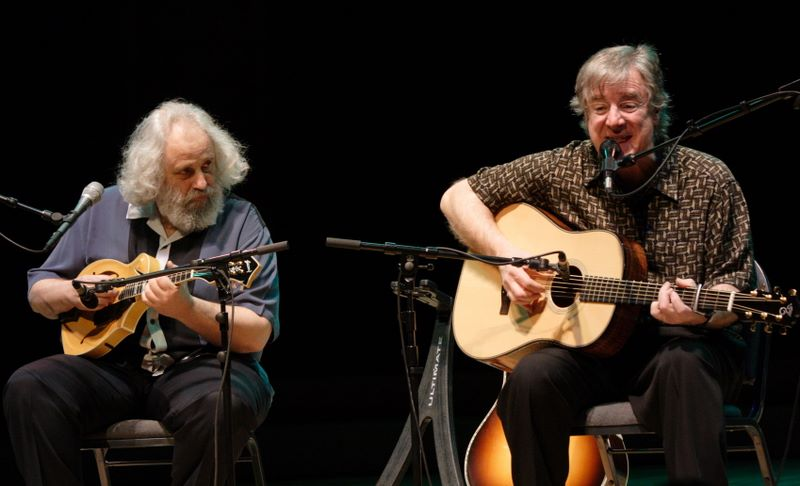 John Sebastian and David Grisman perform at Pinecone, Meymandi Auditorium, Raleigh, North Carolina.